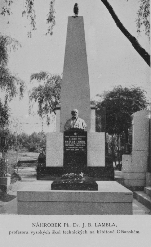 Grave of Jan Lambl by František Hnátek, Prague, 1910